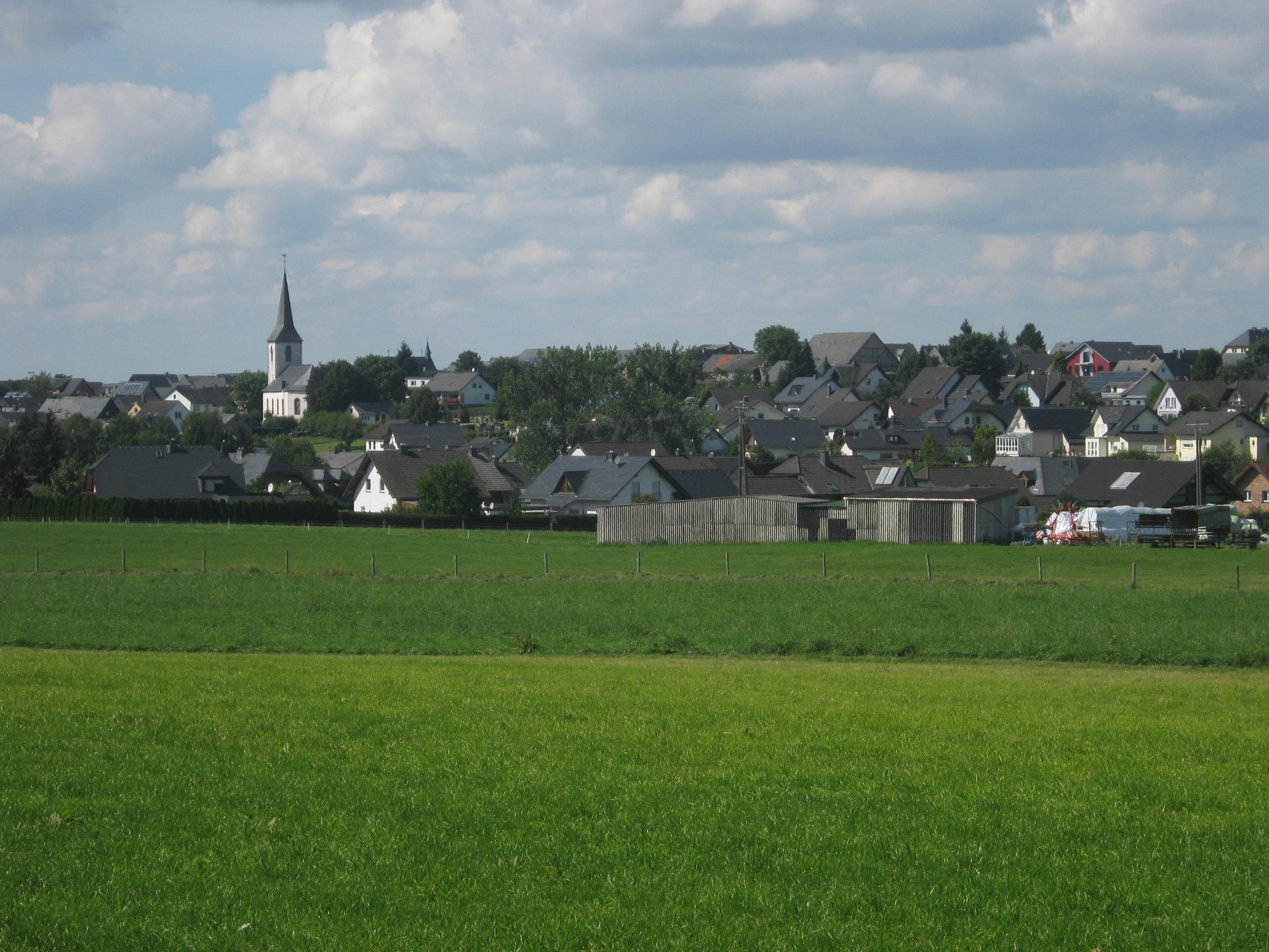 Argenthal , Hunsrück landscape, Germany.